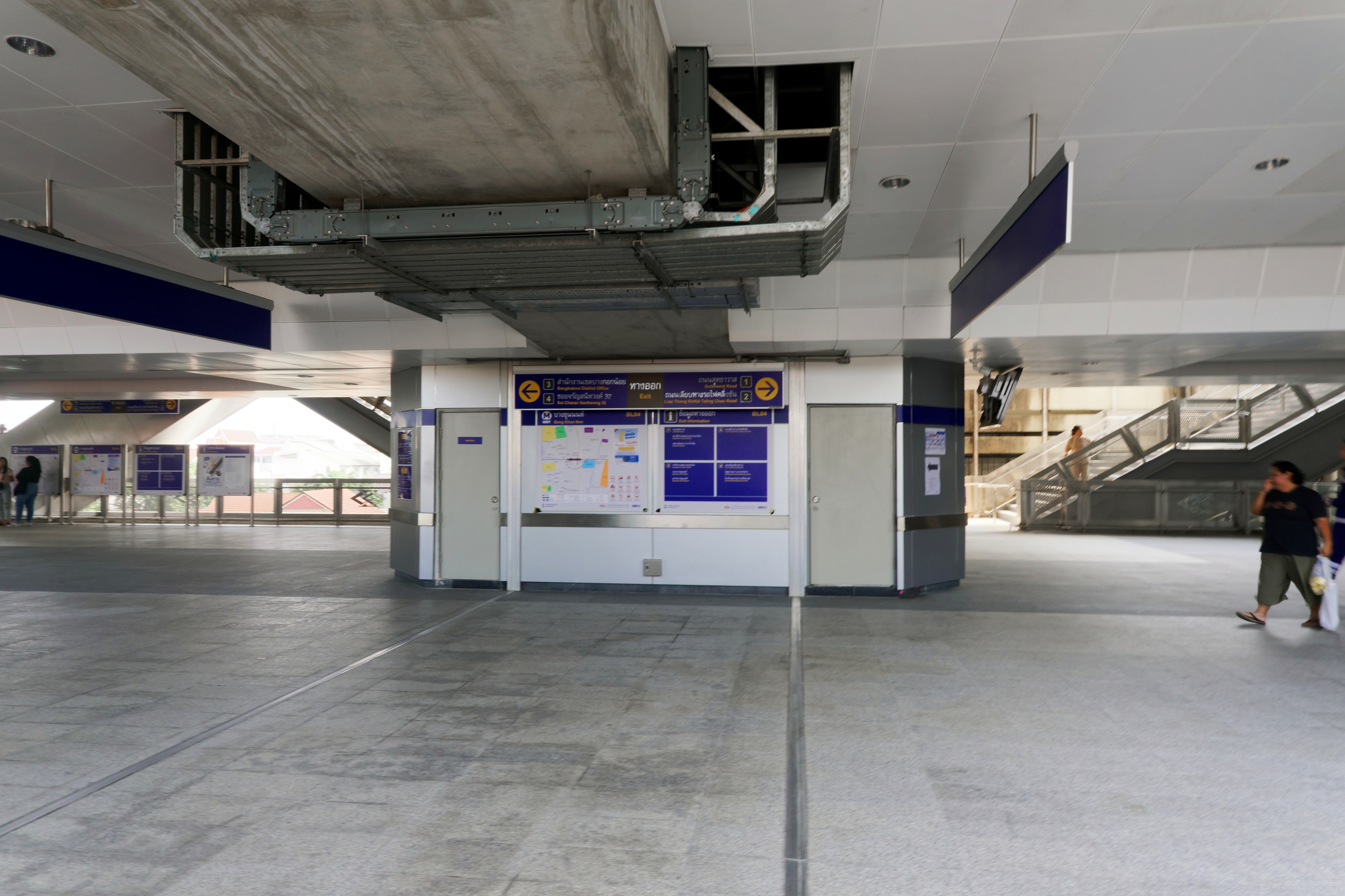 MRT Bang Khun Non – Ticket office floor